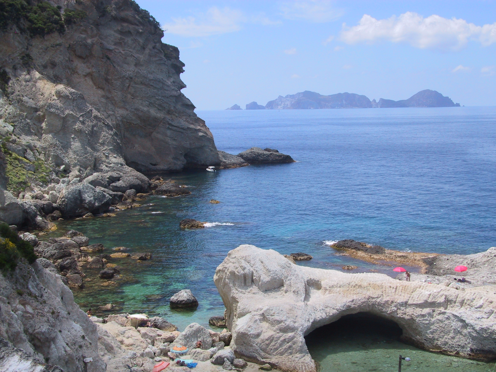 Cala fonte in Ponza.